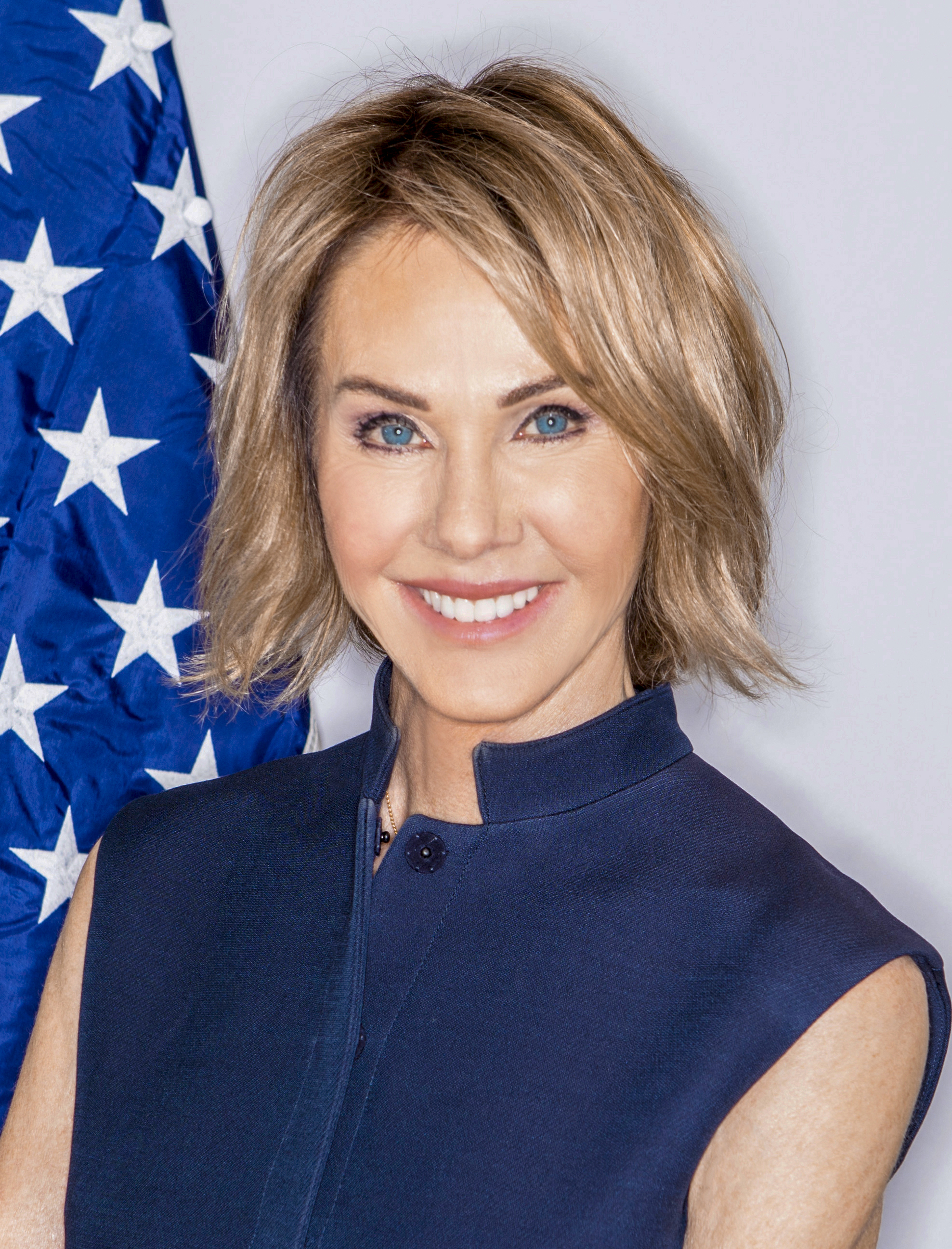 Kelly Kraft, 30th United States Ambassador to the United Nations.